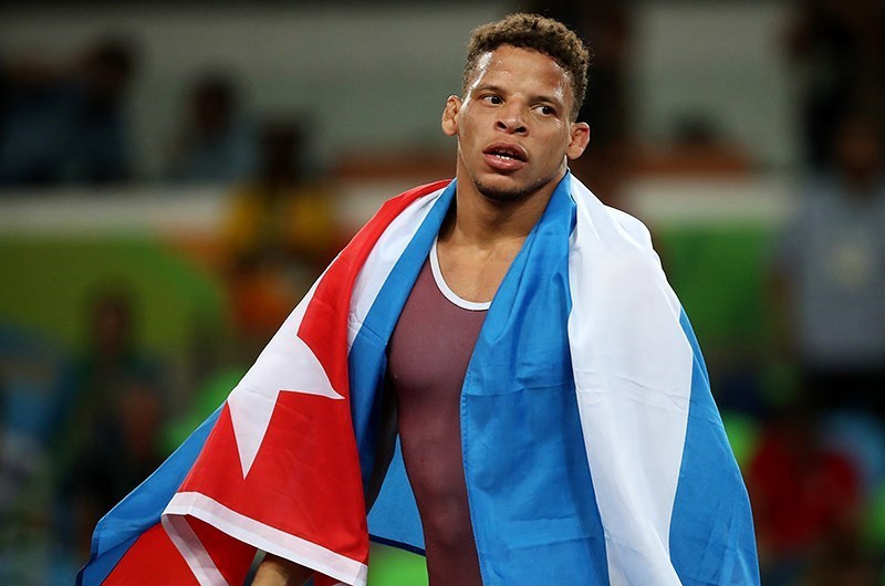 Rio 2016; Greco-Roman Wrestling 59 kg